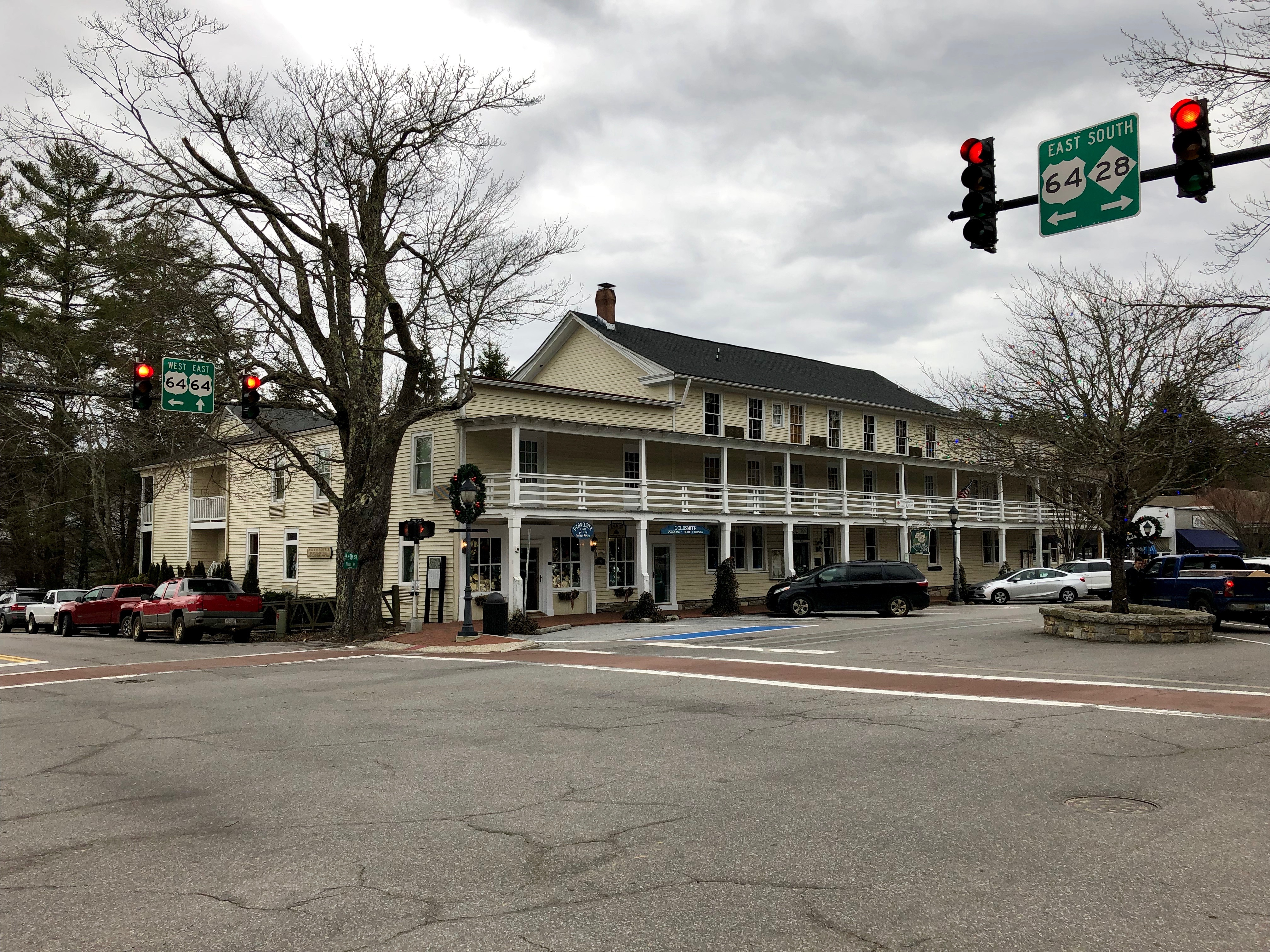 Highlands Inn, Highlands, NC